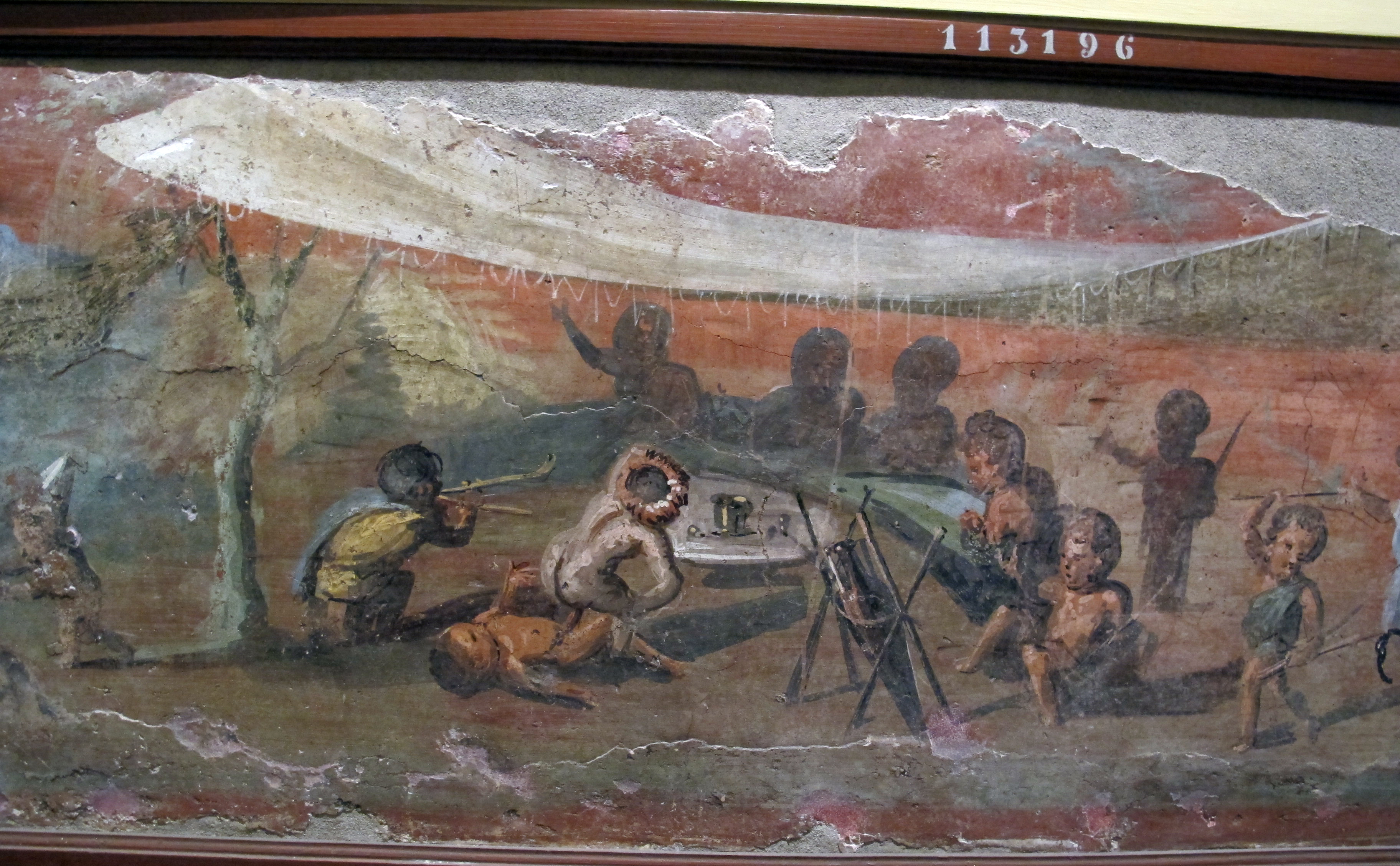 Secret Cabinet in the Museo Archeologico (Naples)